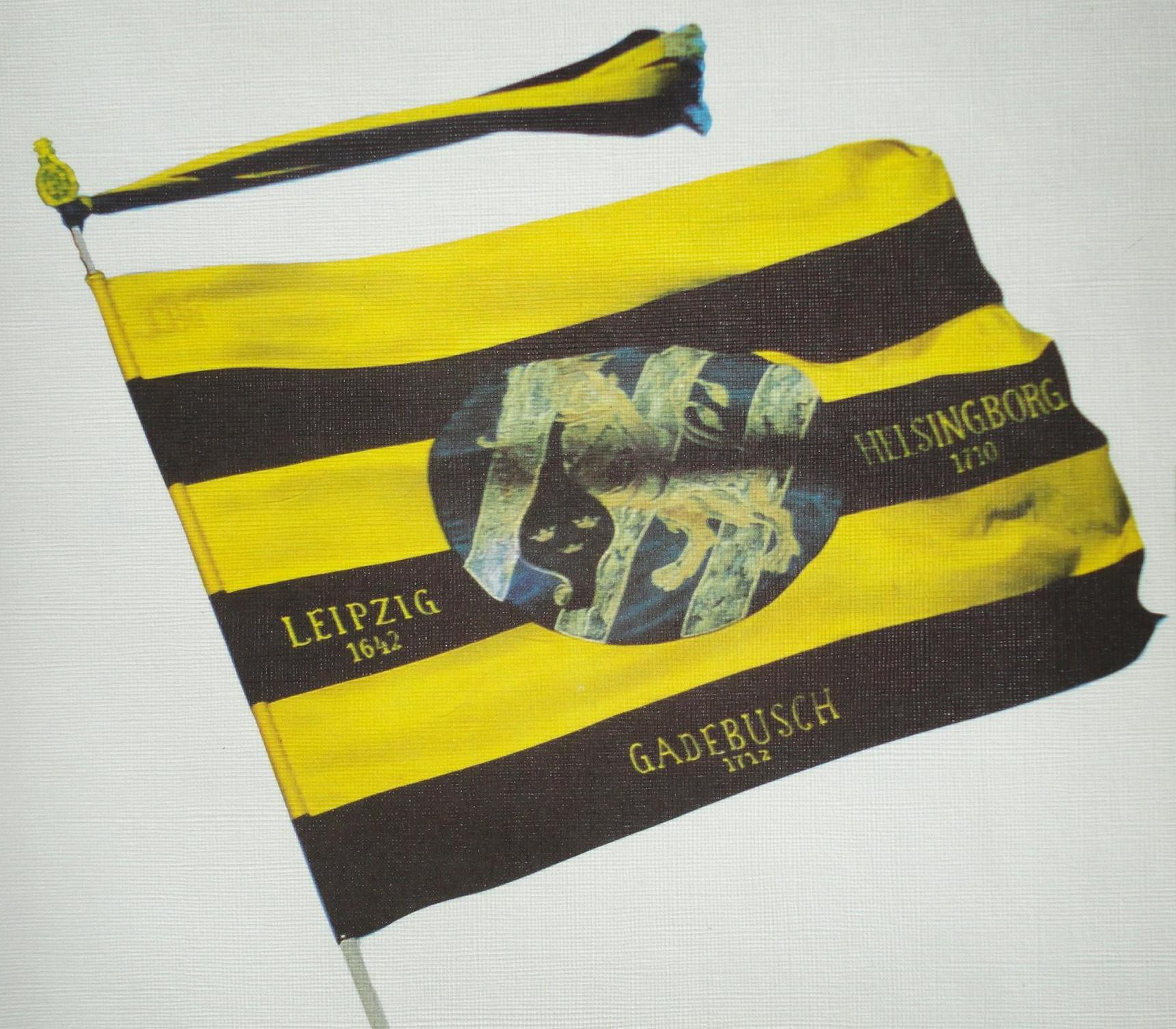 Elfsborgs regt. colors 1858